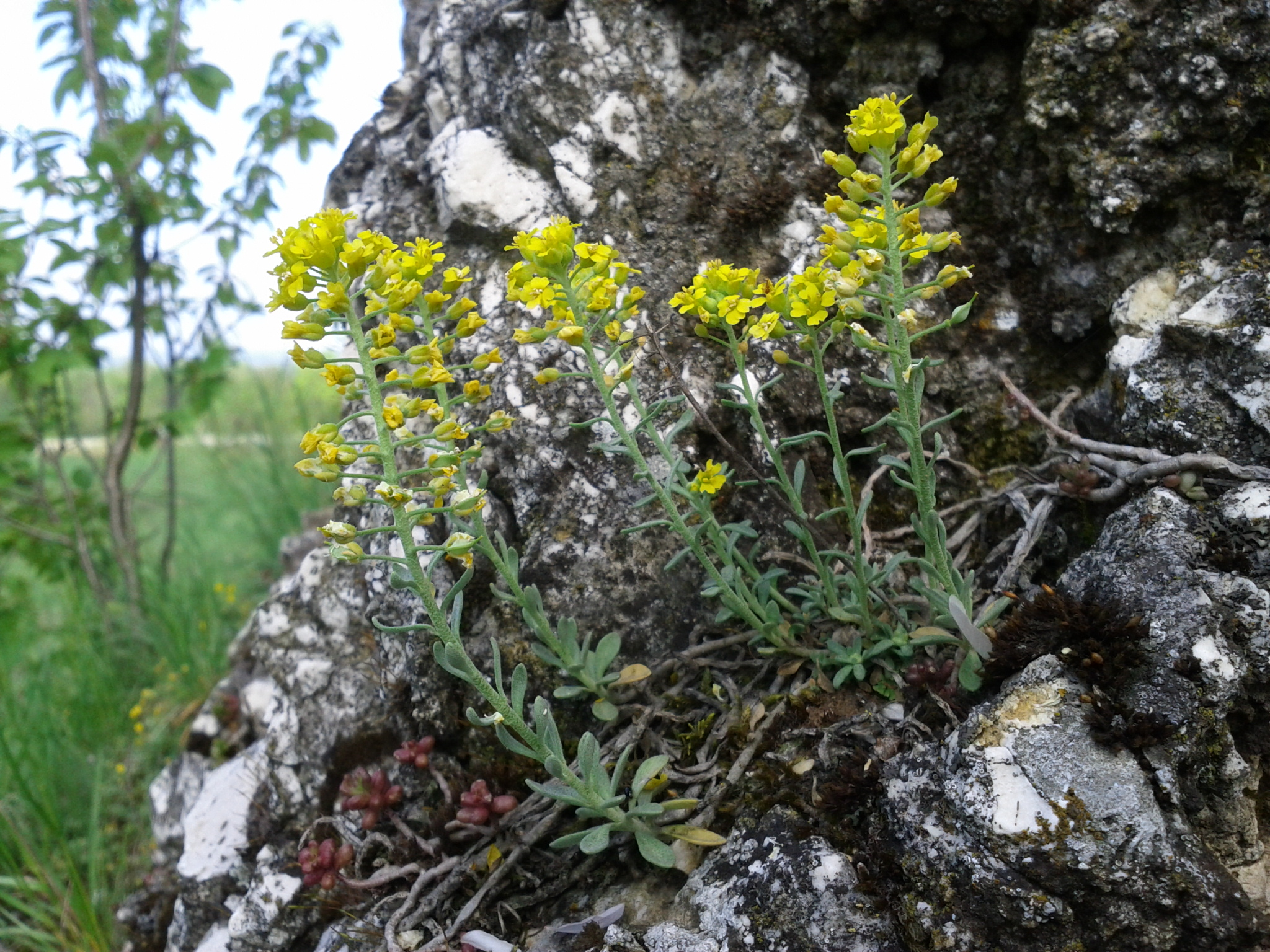 Habitus Taxonym: Alyssum montanum subsp. "montanum" ss Fischer et al. EfÖLS 2008 ISBN 978-3-85474-187-9 = Alyssum montanum subsp. gmelinii ss Španiel, Marhold, Thiv, Zozomová-Lihová: Botanical Journal of the Linnean Society Volume 169, Issue 2, pages 378–402, June 2012 Location: Steinbacher Heide, Leiser Berge, district Korneuburg, Lower Austria - ca. 430 m a.s.l. Habitat: rock steppe